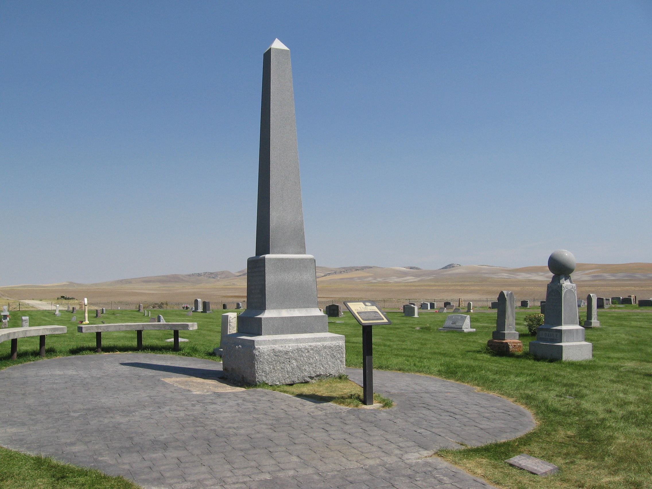 Monument at the grave site of Martin Harris, an early LDS or Mormon church leader. Located at the town cemetery at Clarkston, Utah, USA, the location is a Utah Historic Site, and is adjacent to the place where an annual pageant entitled, "Martin Harris, the Man Who Knew", is held each August.